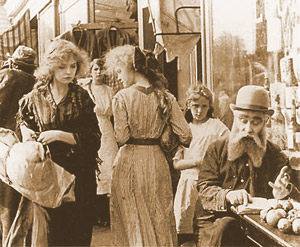 Still from The Musketeers of Pig Alley (1912).